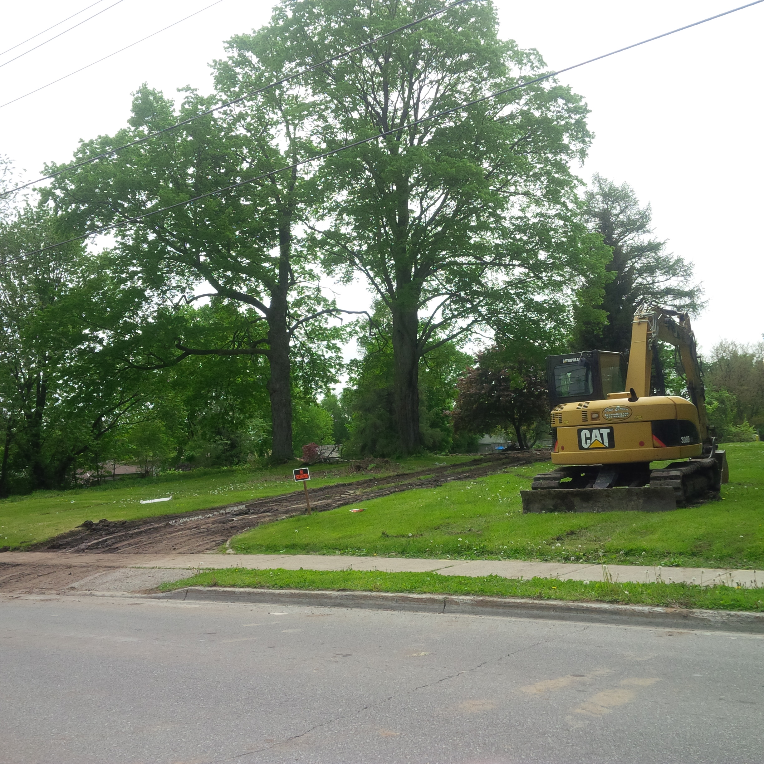 Elisha Hall House, Ingersoll, Ontario